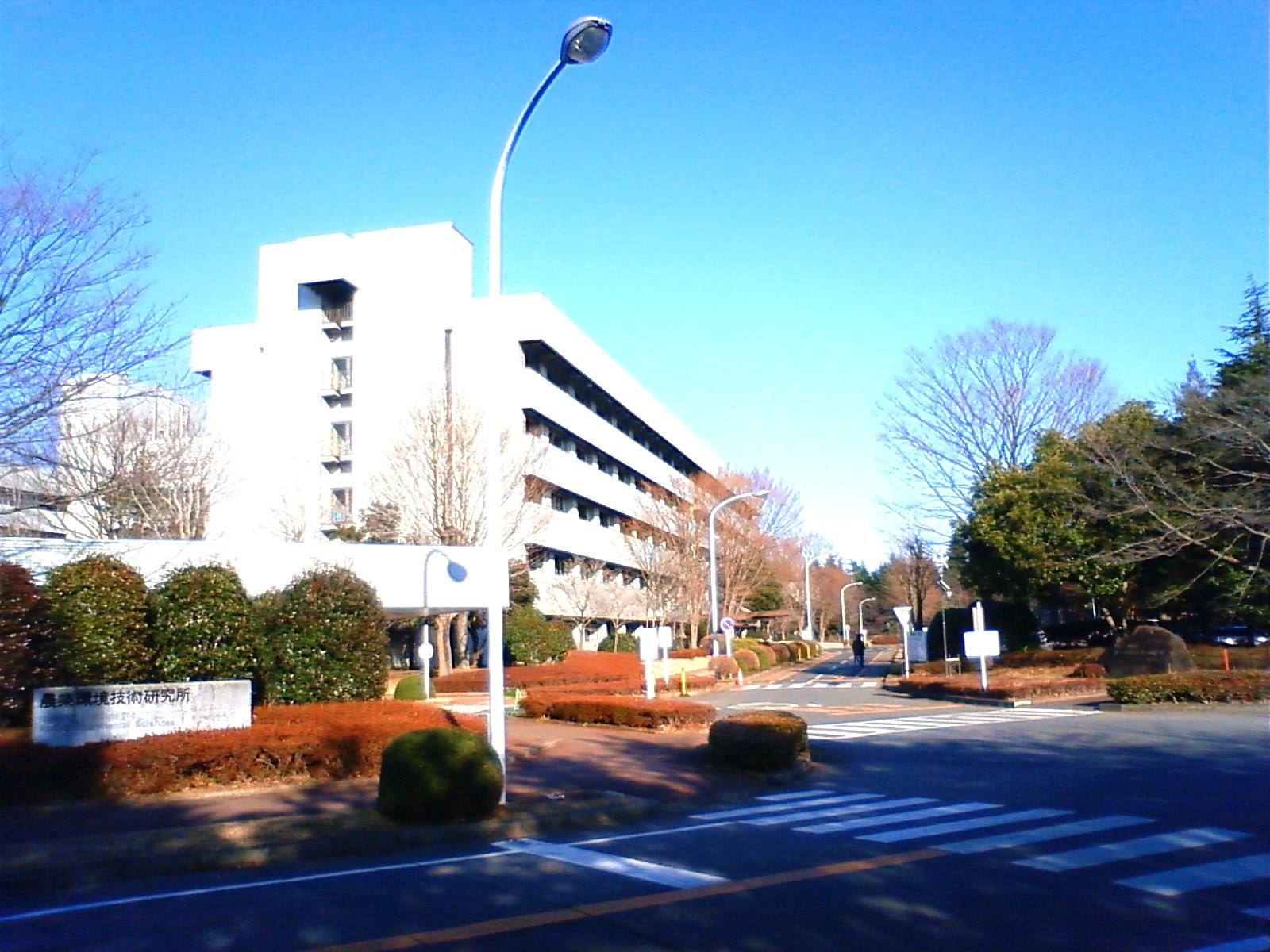 This is a research center in Japan. It is called "National Institute for Agro-Environmental Sciences".